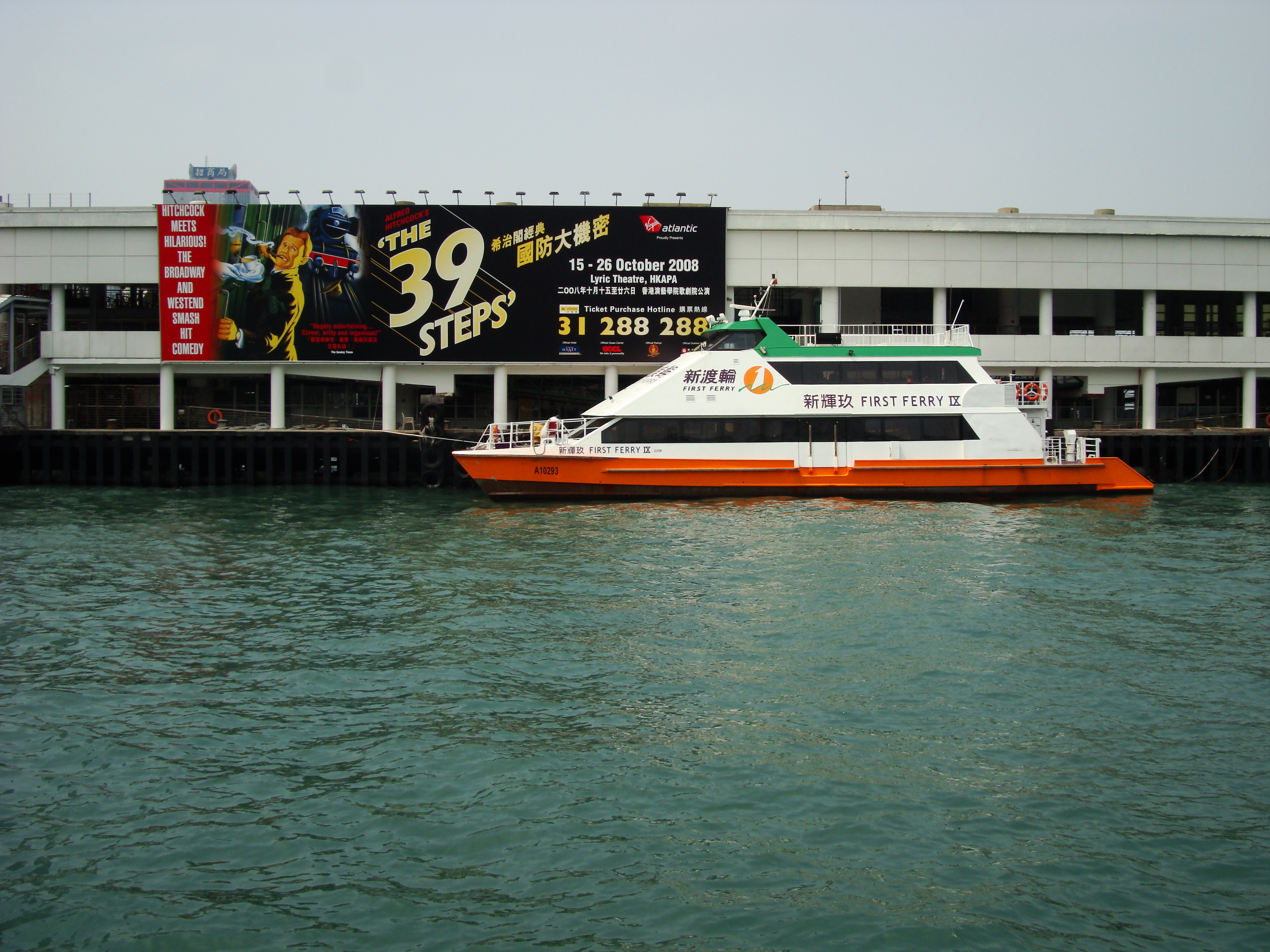 Honk Kong central First Ferry IX Victoria Harbor